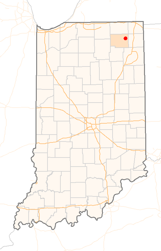 Red Dot map of Indiana, showing the location of Kendallville